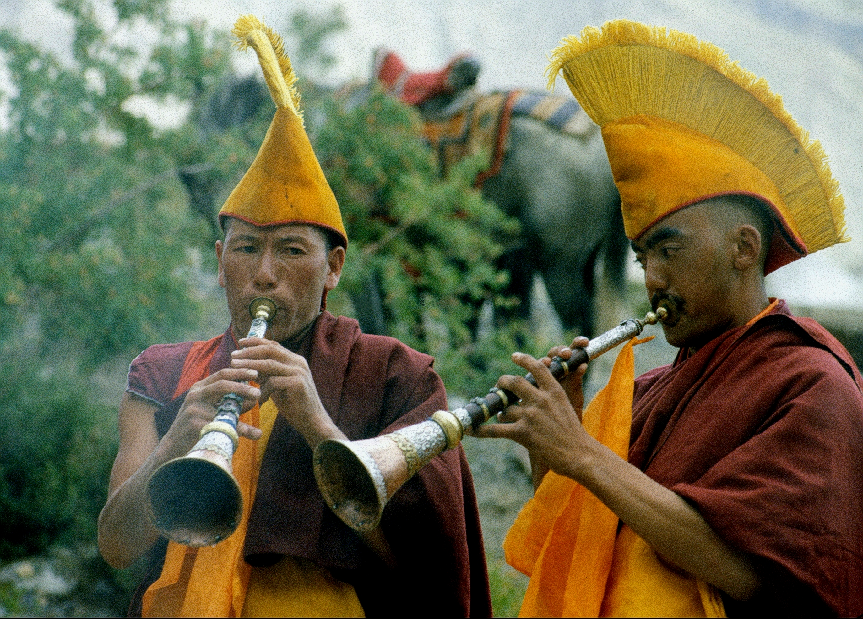 In Lingshed, monks playing oboe (gyalings) about arrival's Rimpoché, Zanskar/Ladakh.